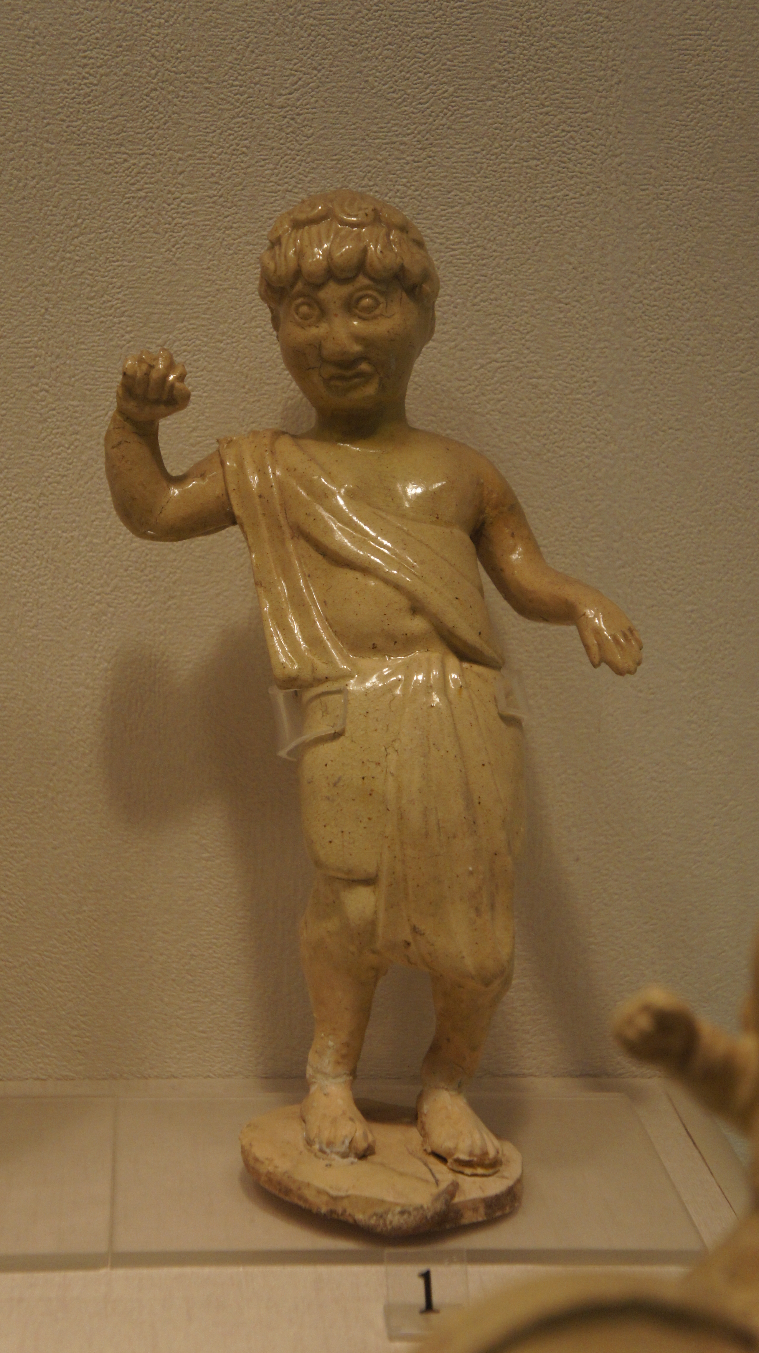 Greek figure from Tang dynasty uncovered from Chaoyang, Liaoning tomb.